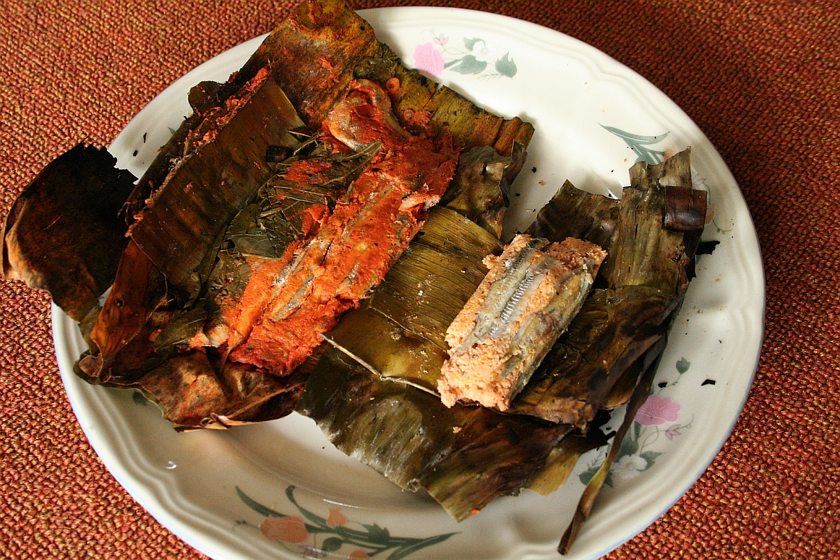 Palai bada, a Minangkabau dish made of fish, coconut and spices, wrapped in bananaleaf and "barbecued". On the left: palai bada balado; on the right: palai bada.